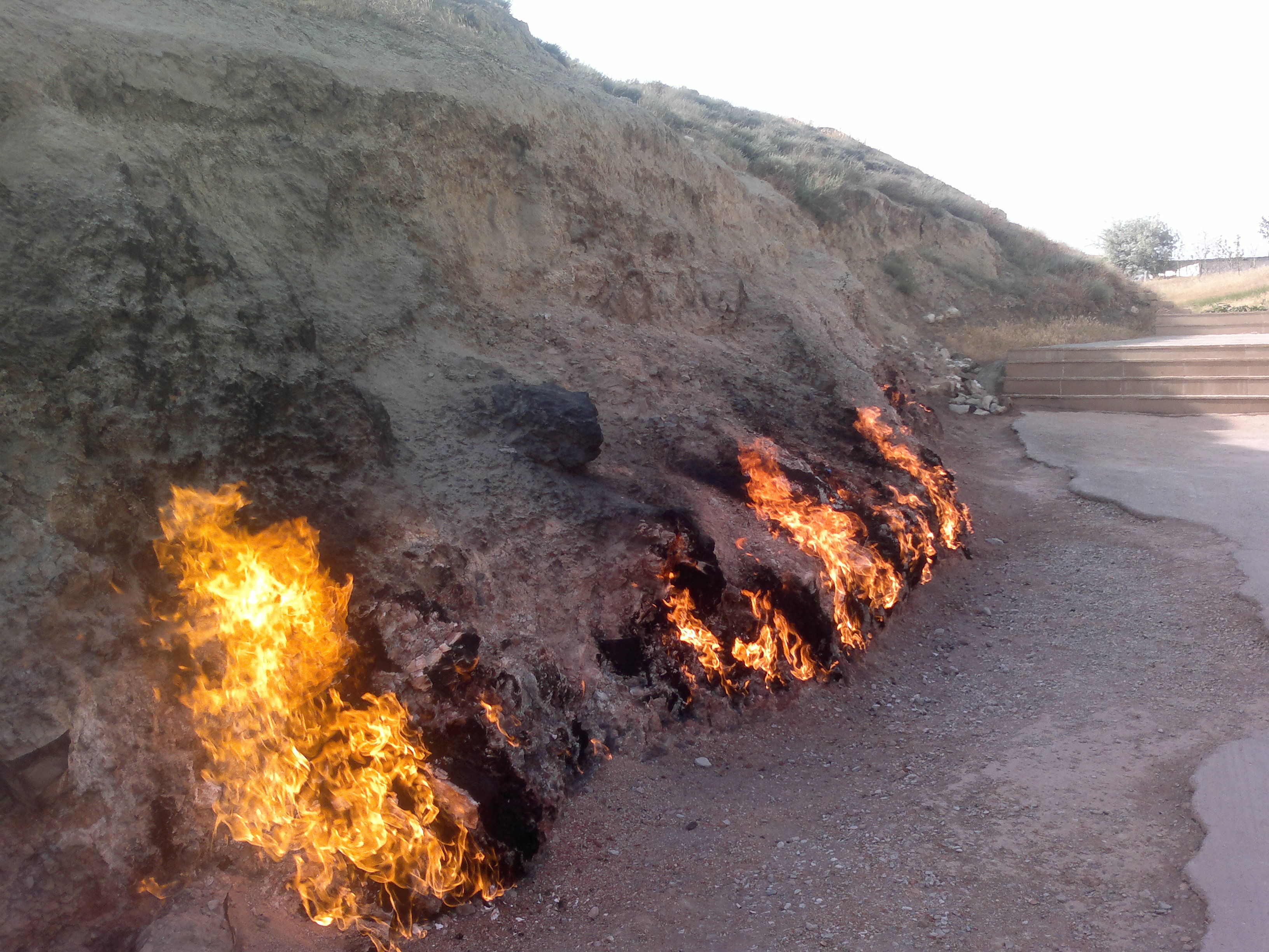 Yanar Dag